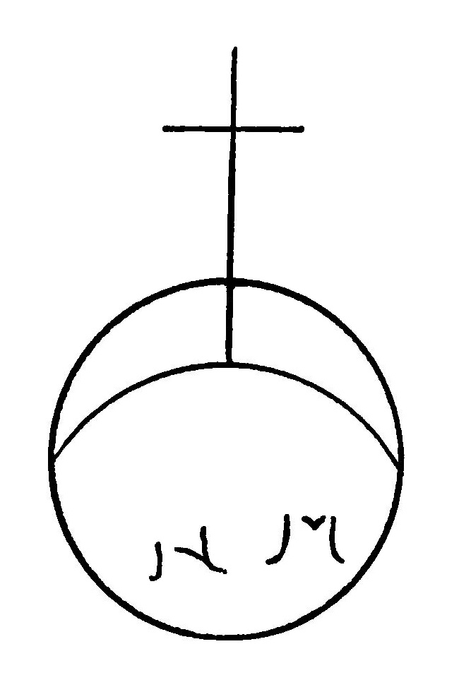 a watermark in Codex Montfortianus, it was published by Thomas Kingsmill Abbott (T.K. Abbott. Note on the Codex Montfortianus. „Hermathena”. XVII, p. 203, 1891. London.